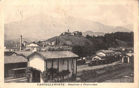 Castellamonte railway station